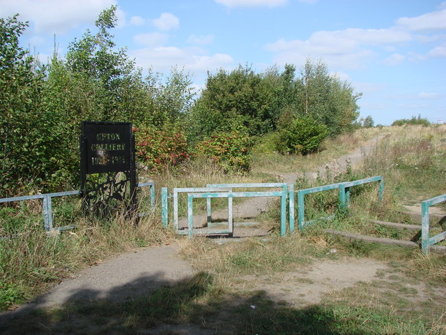 Eastern entrance to the old Upton Colliery recreational area